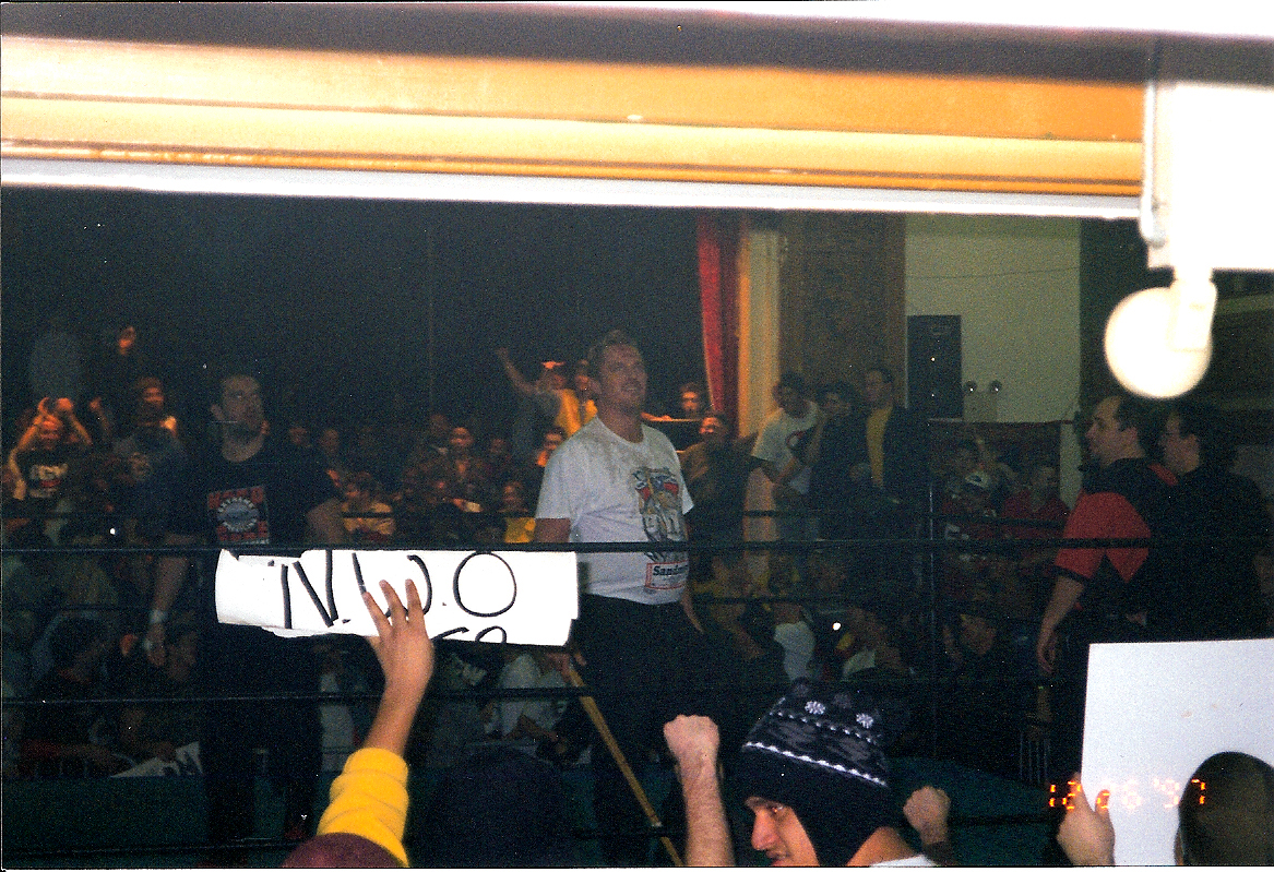 ECW Elks Lodge "WWE Invasion" 12.26.97 Apologize for the quality of the pics, I had to buy standing room for $5 and sit in balcony staircase.